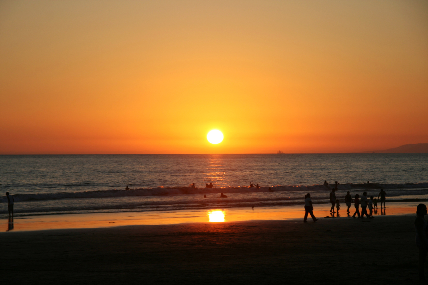 Sunset over the Pacific Ocean in Newport Beach, California.